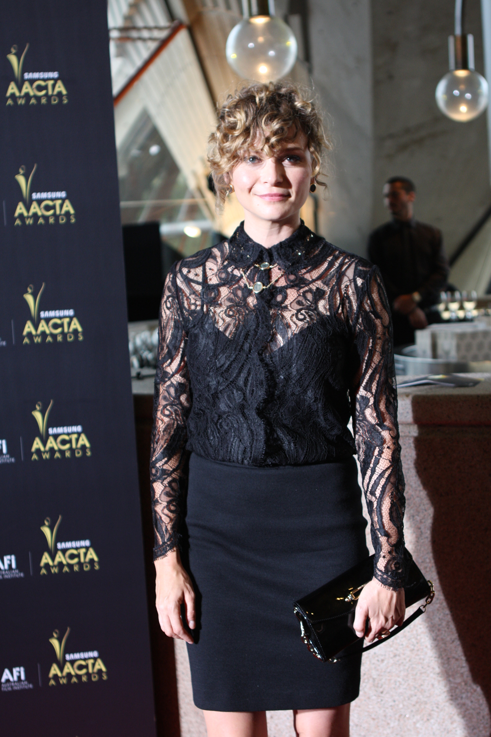 Australian actress Leeanna Walsman at the AACTA award 2012, Sydney, Australia